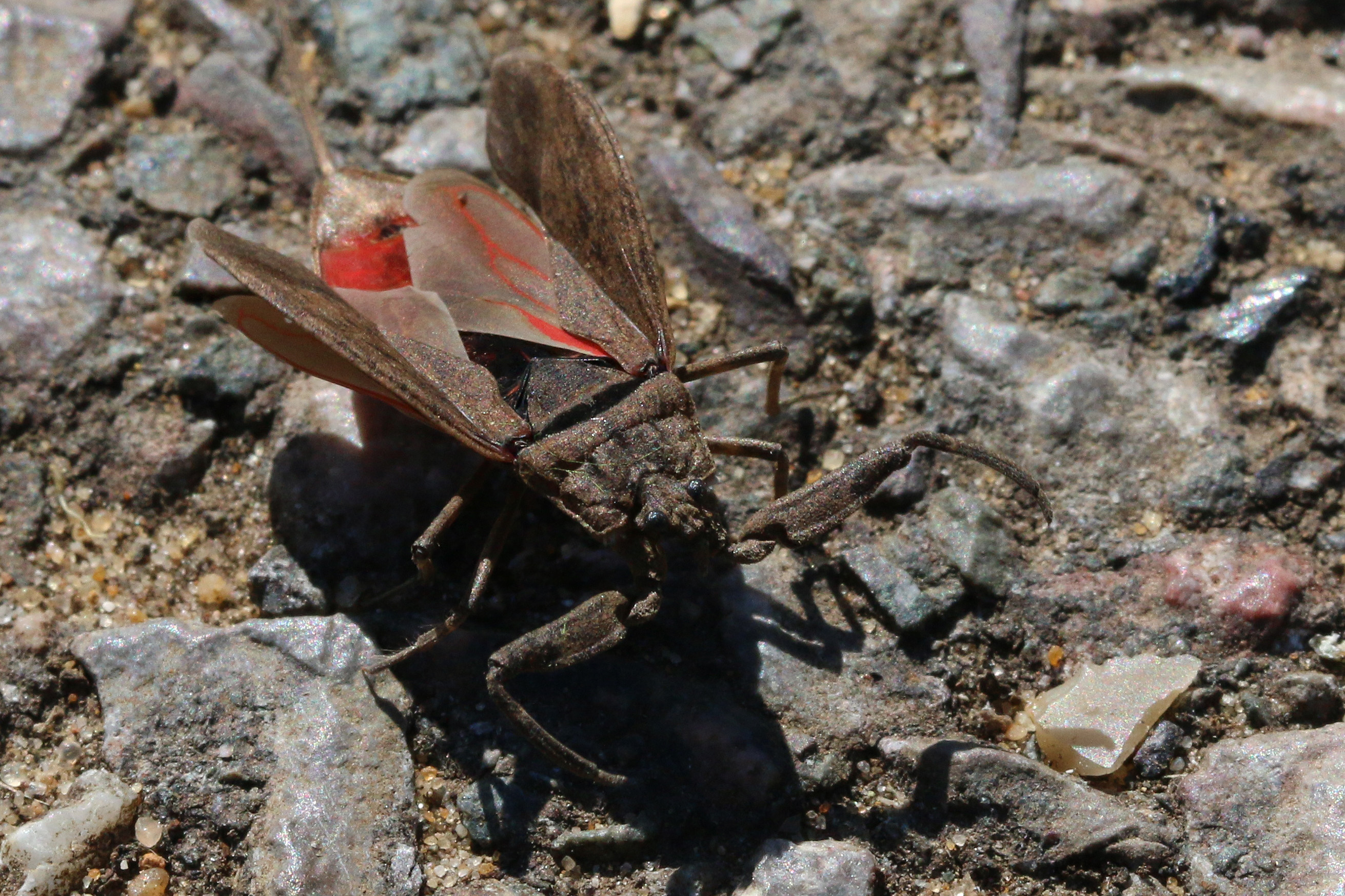 Water scorpion (Nepa cinerea), WWT London Wetland Centre, Barnes